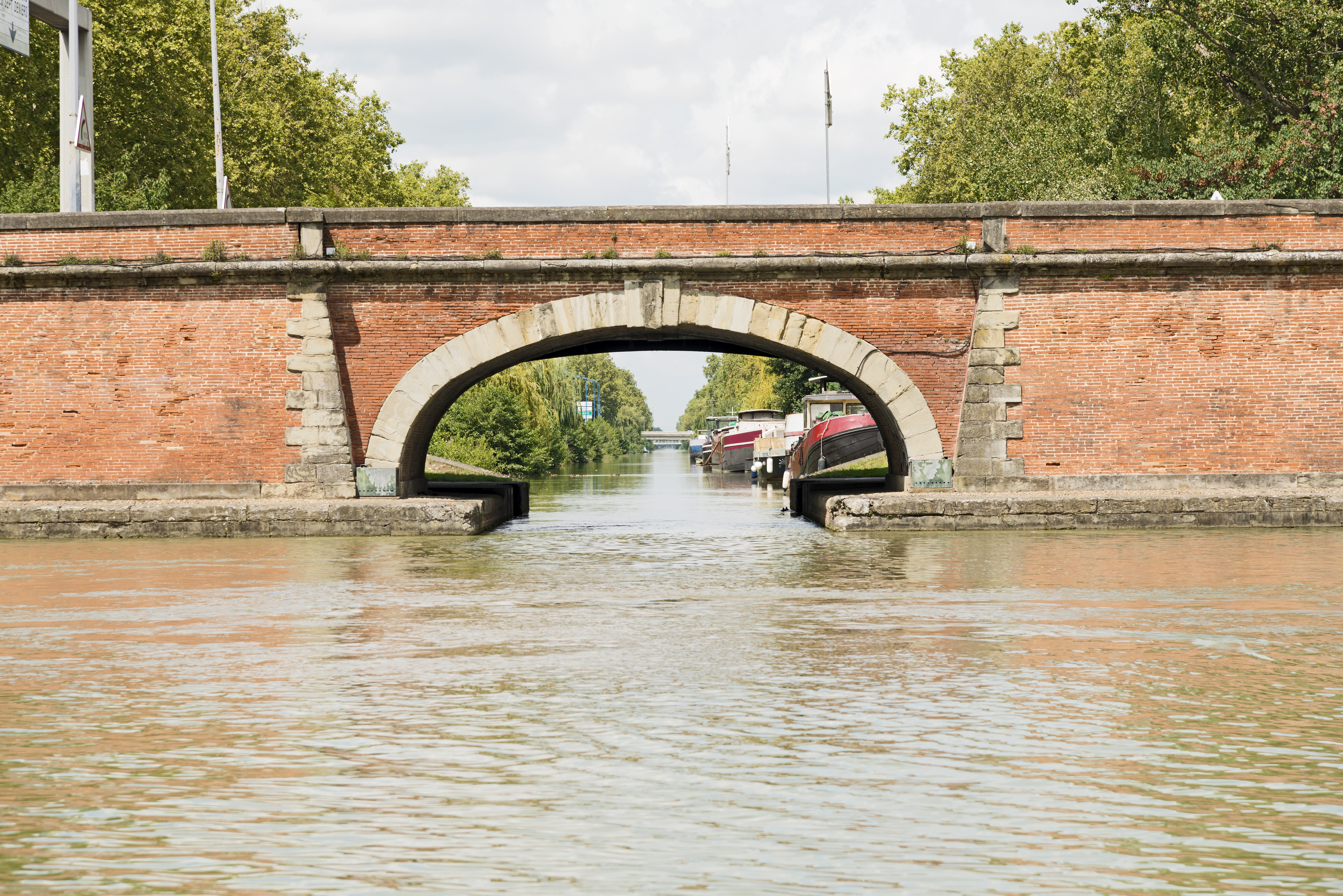 Root of Canal latéral à la Garonne from Port de l’embouchure in Toulouse.